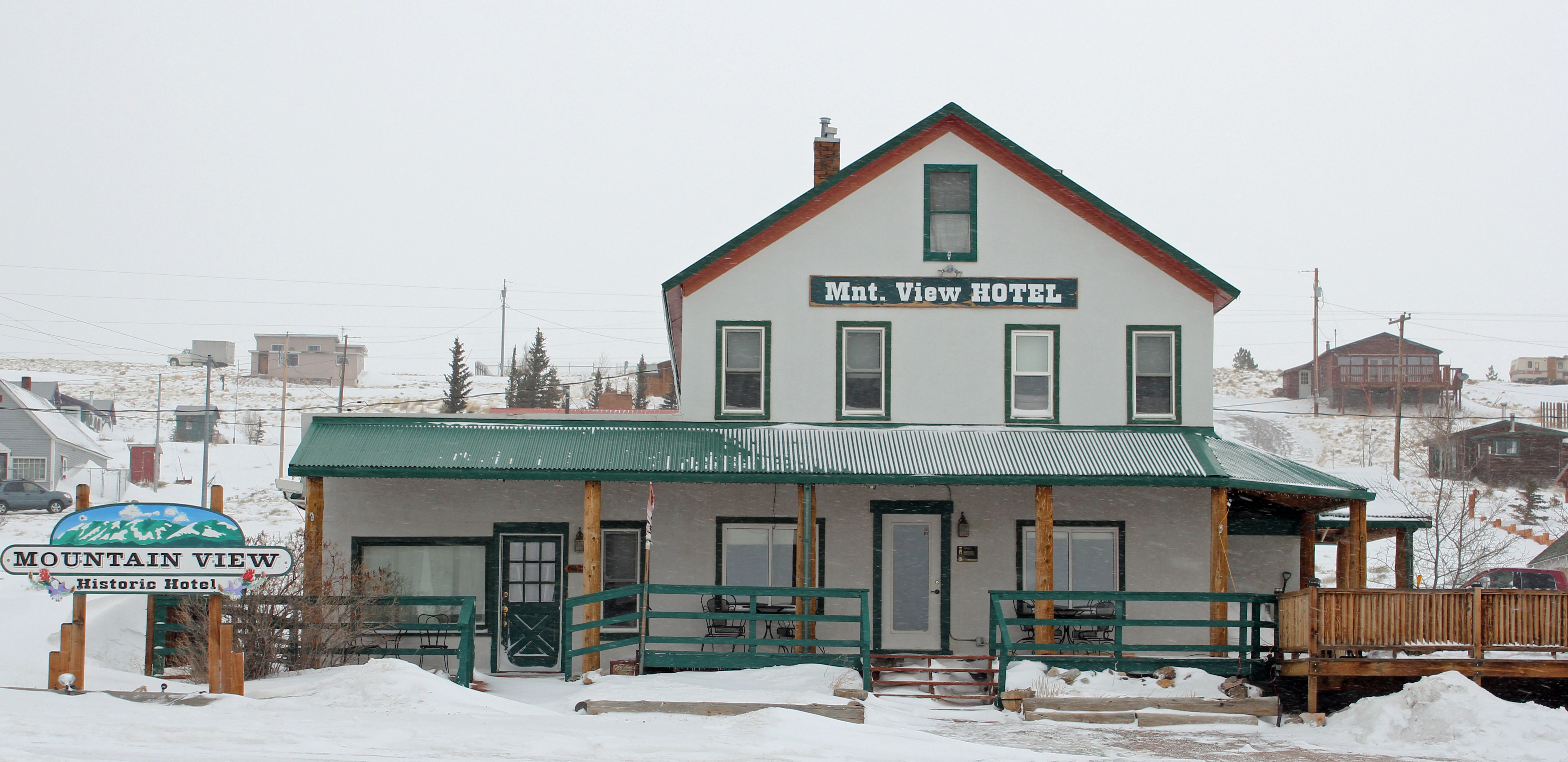 The Mountain View Hotel, located at 2747 Wyoming Highway 130 in Centennial, Wyoming. The hotel is listed on the National Register of Historic Places.